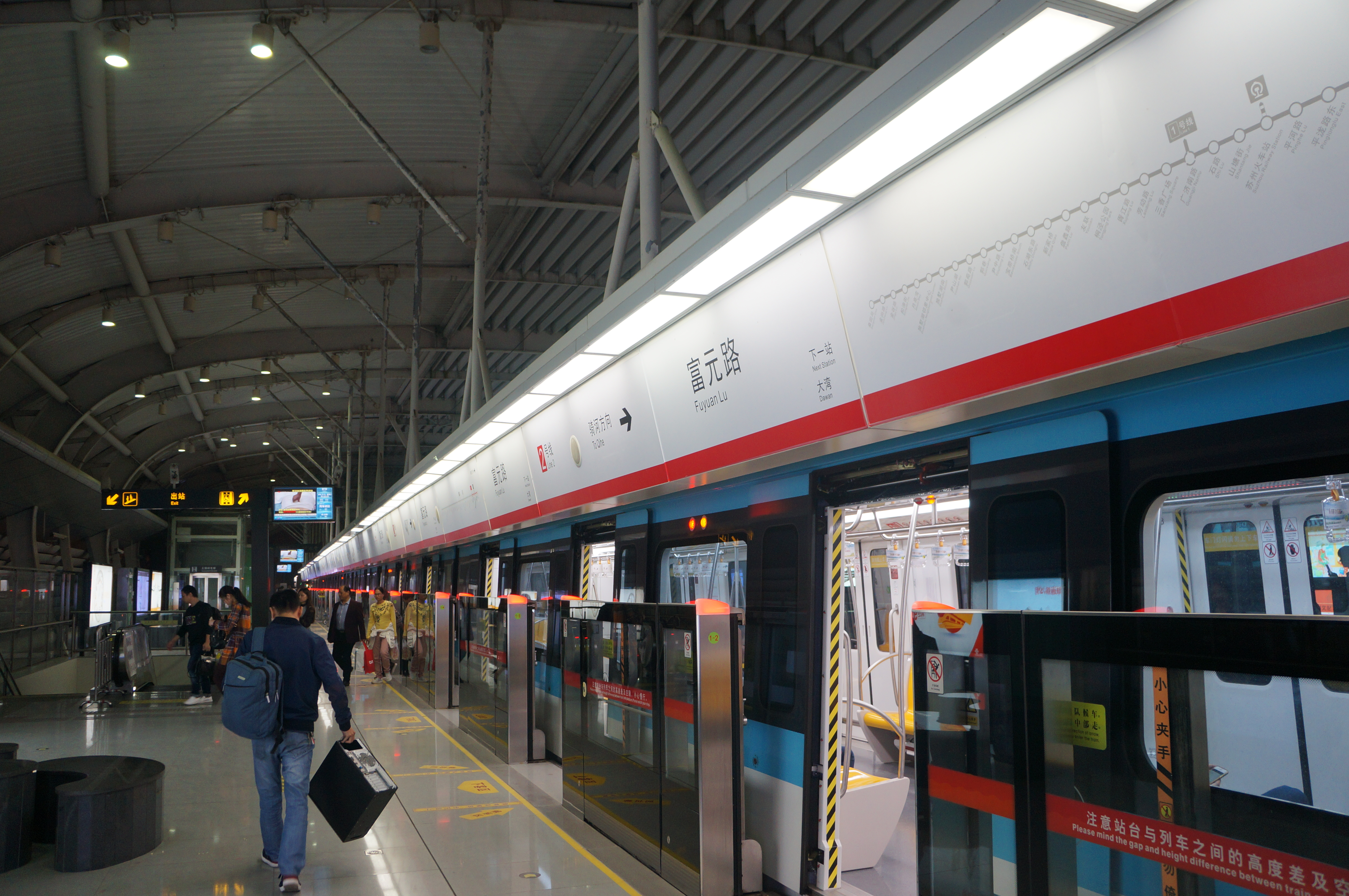 201610 Fuyuan Lu Station